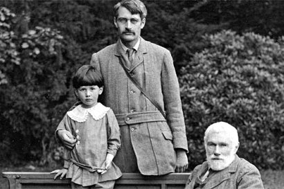 George Macaulay Trevelyan (center, standing) with his eldest son Theo and Sir George Otto Trevelyan